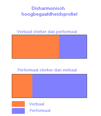 Graph about performance and verbal profile in gifted people